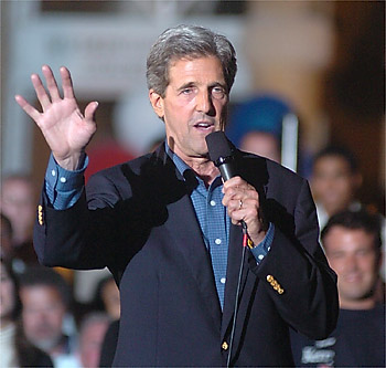 2004 rally in Zanesville, Ohio